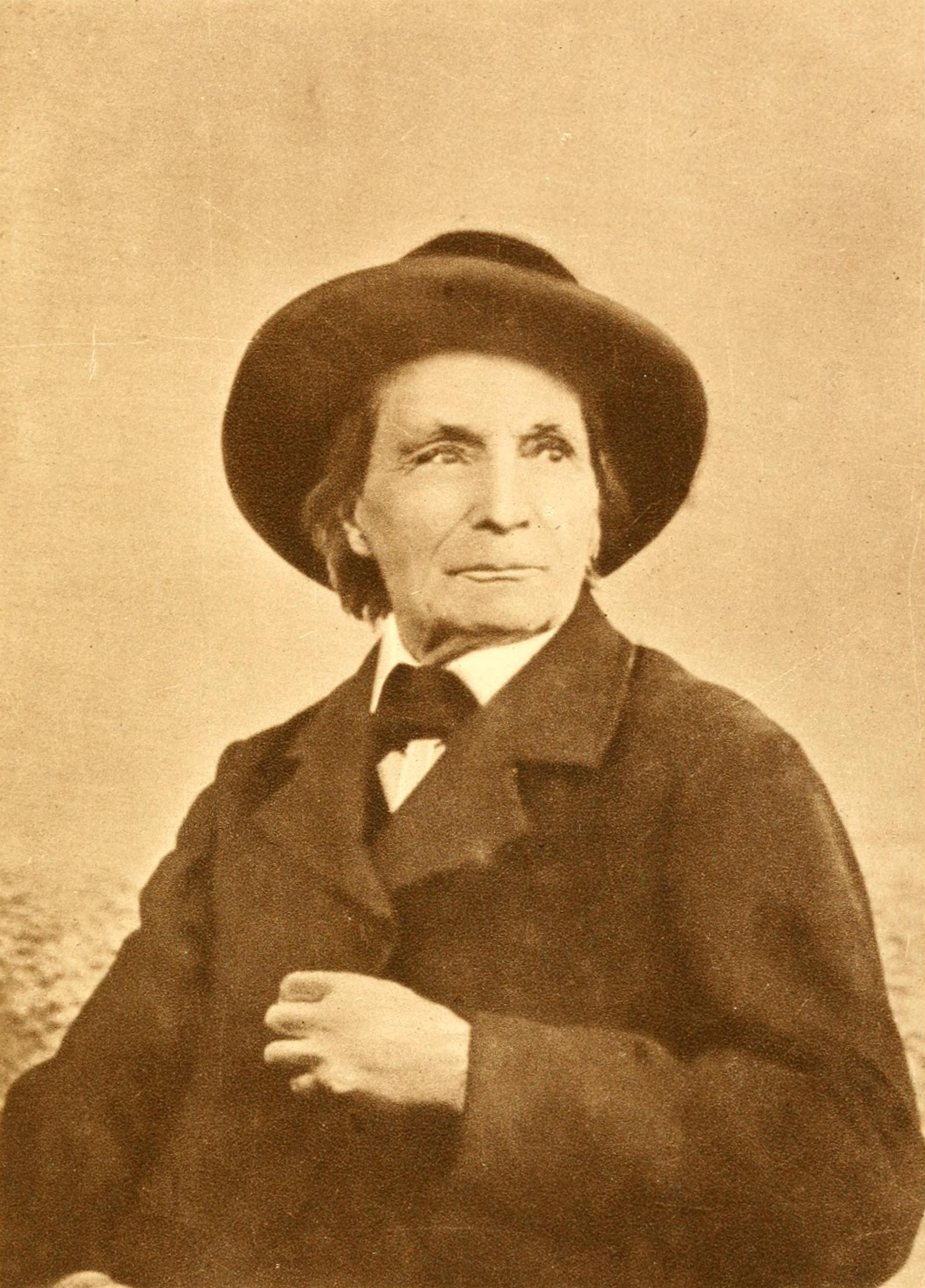 Jean Henri Fabre from Wikipedia 5 sep 2004 à 20:45 uploaded by Kelson